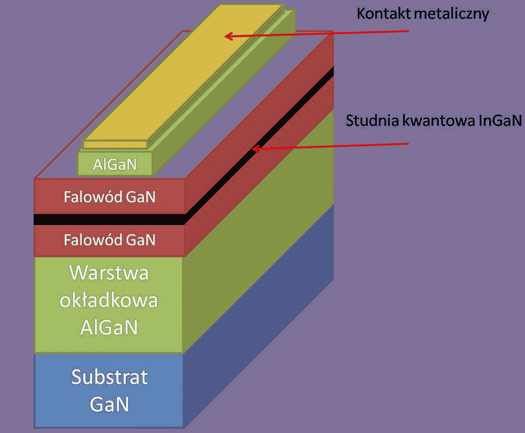 scheme of blue laser diode structure